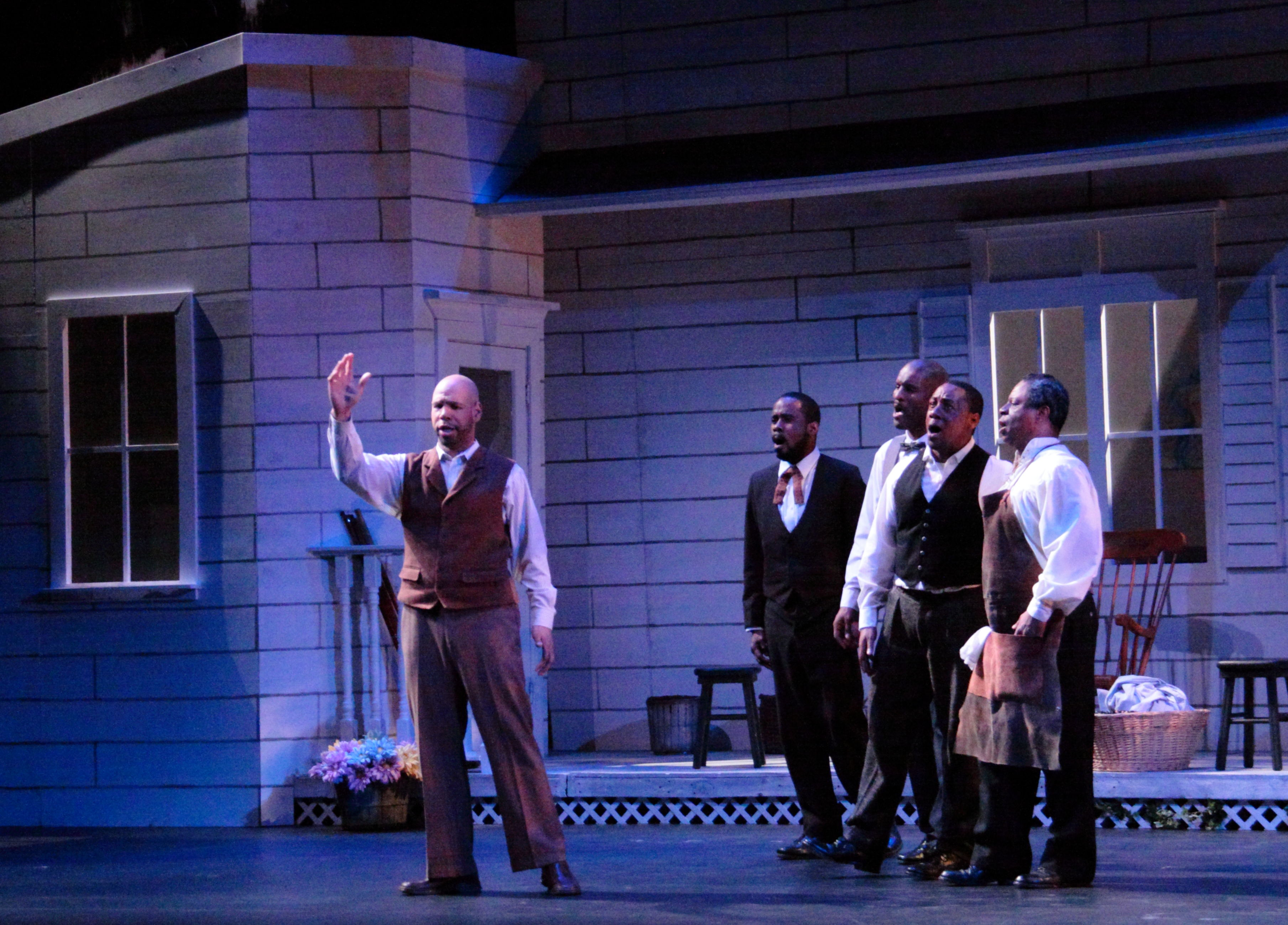 Photo of a scene from Act I of a 2014 production of Zenobia Powell Perry's 1987 opera Tawawa House in Modesto, CA